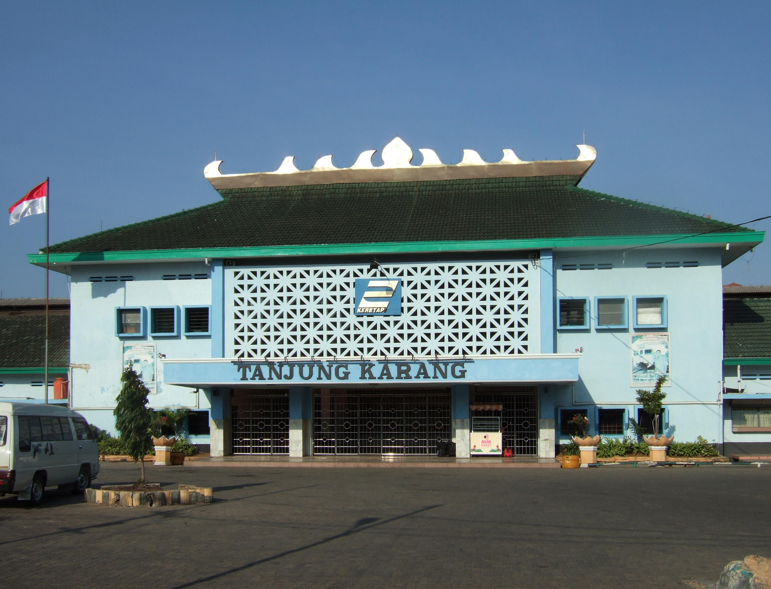 Tanjung Karang Station, Bandar Lampung, Indonesia